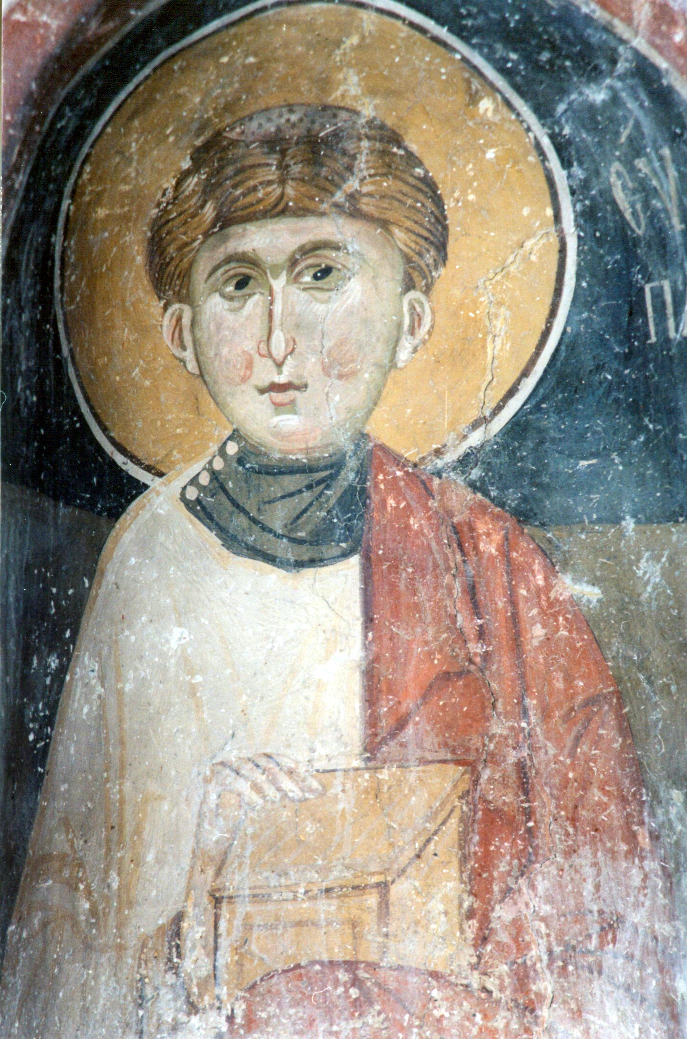 Mali Sveti Vrachi Fresco